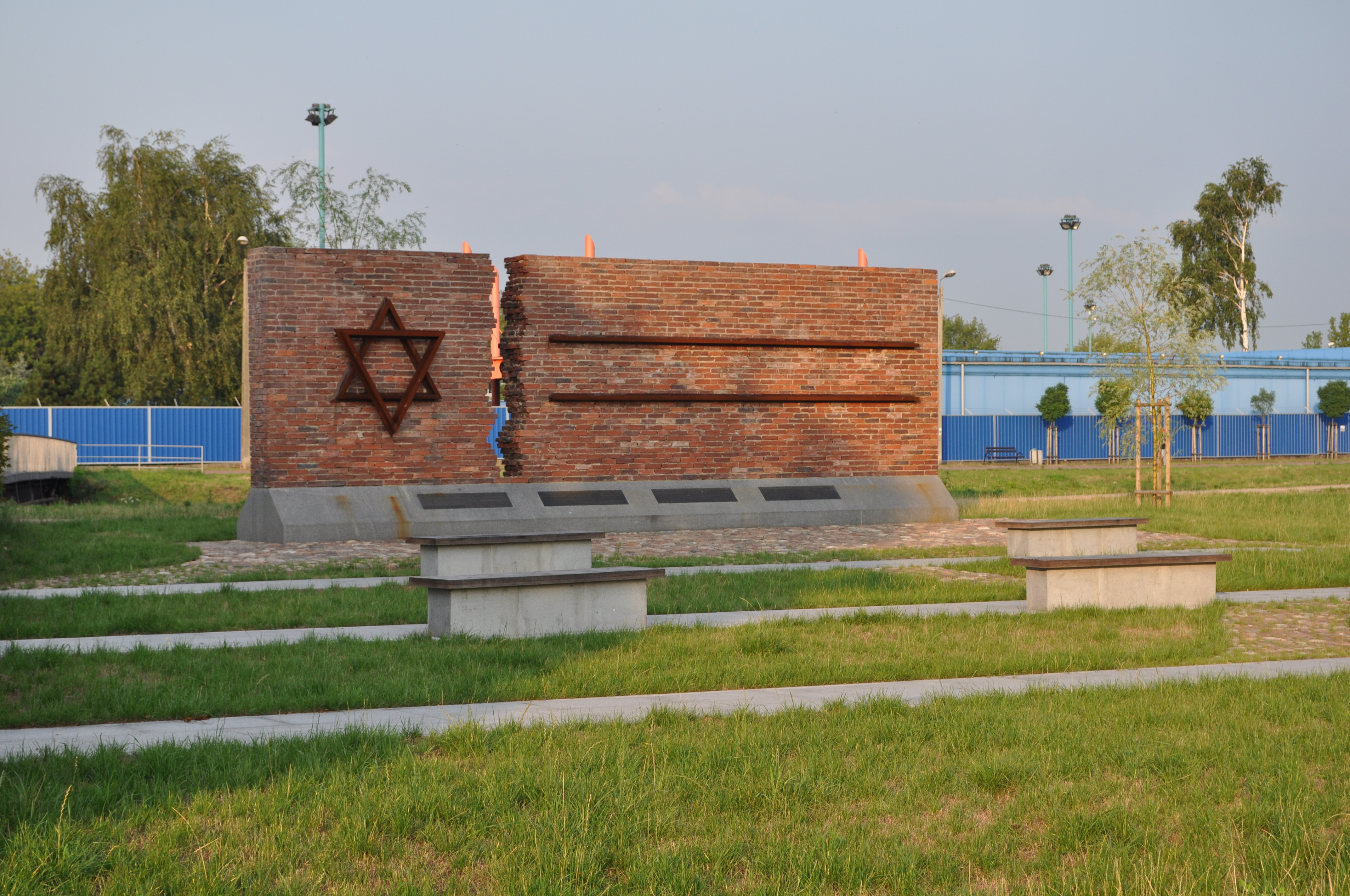 Monument in the Częstochowa Warta train station